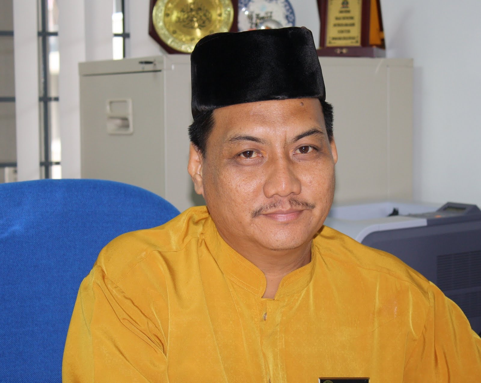 pengetua keenam